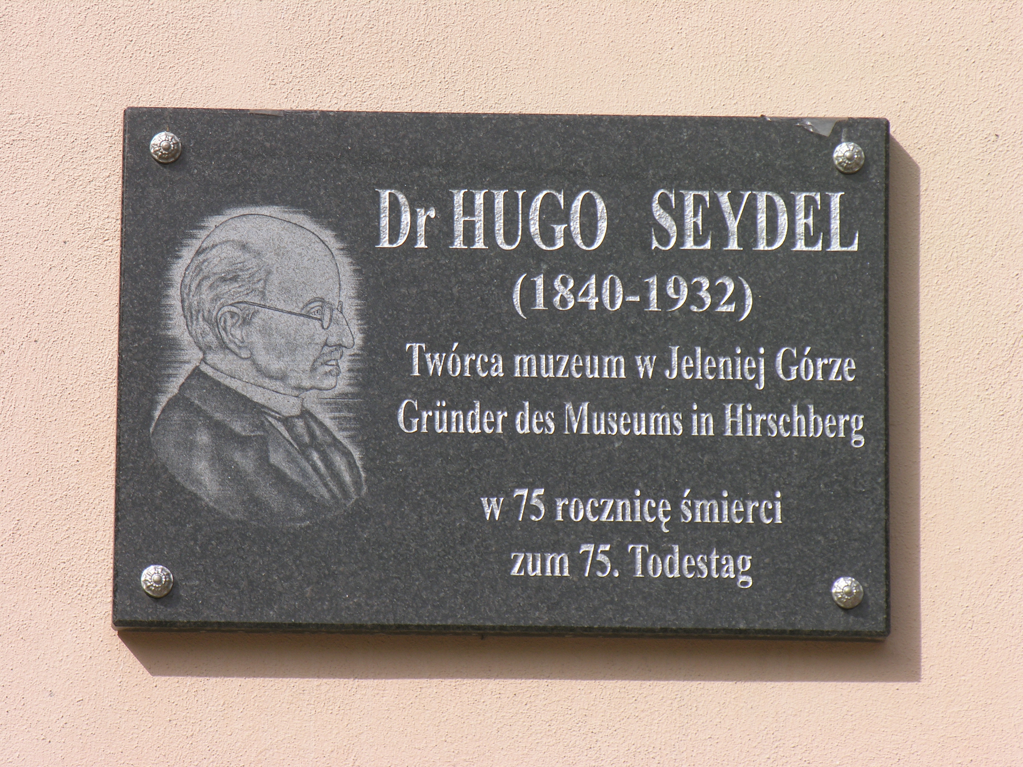 Tablica ku czci prezsa Towarzystwa Karkonoskiego Hugo Seydela na budynku Muzeum Karkonoskiego w Jeleniej Górze, ul. Matejski 18